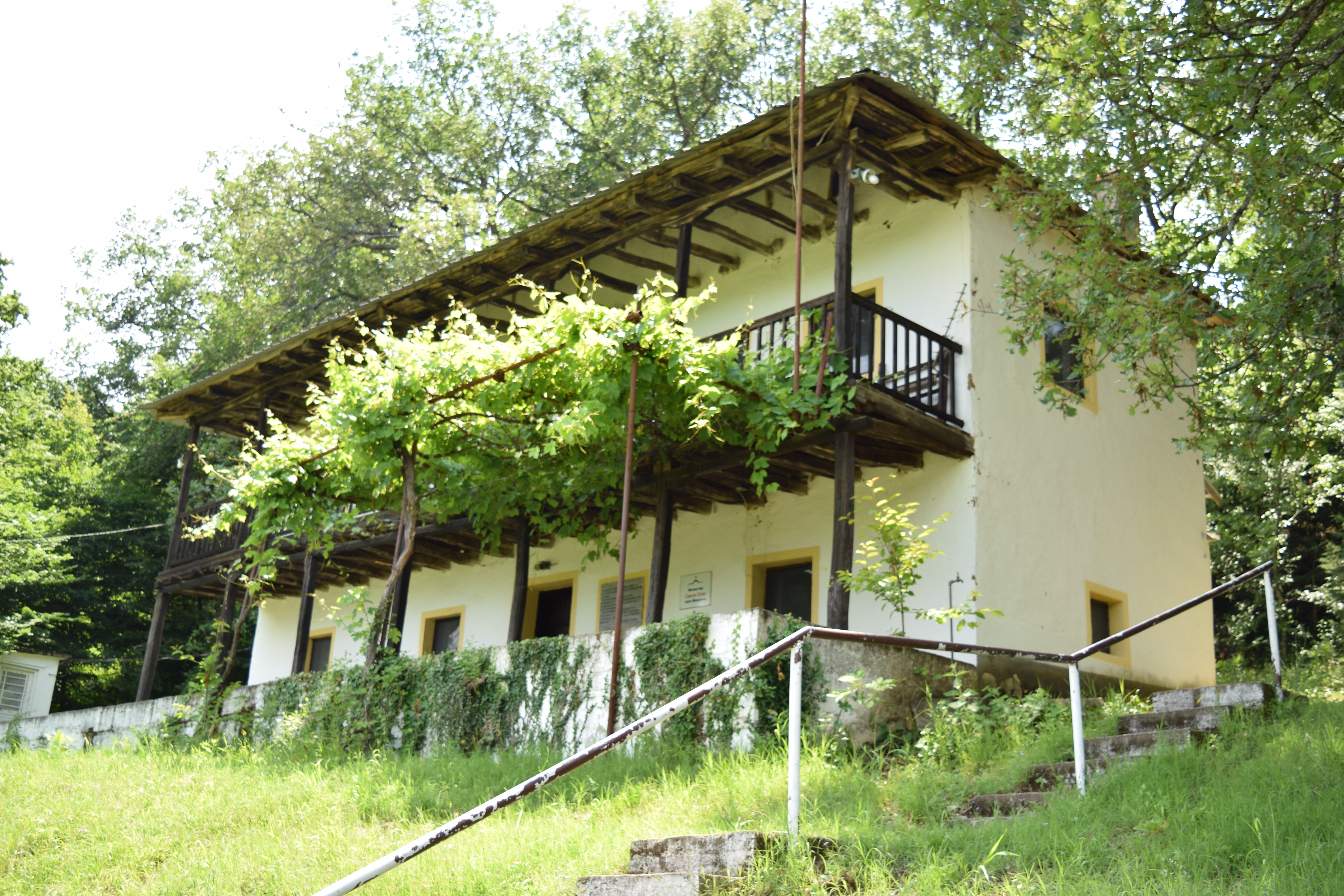 Hospices of the Mokreni Monastery